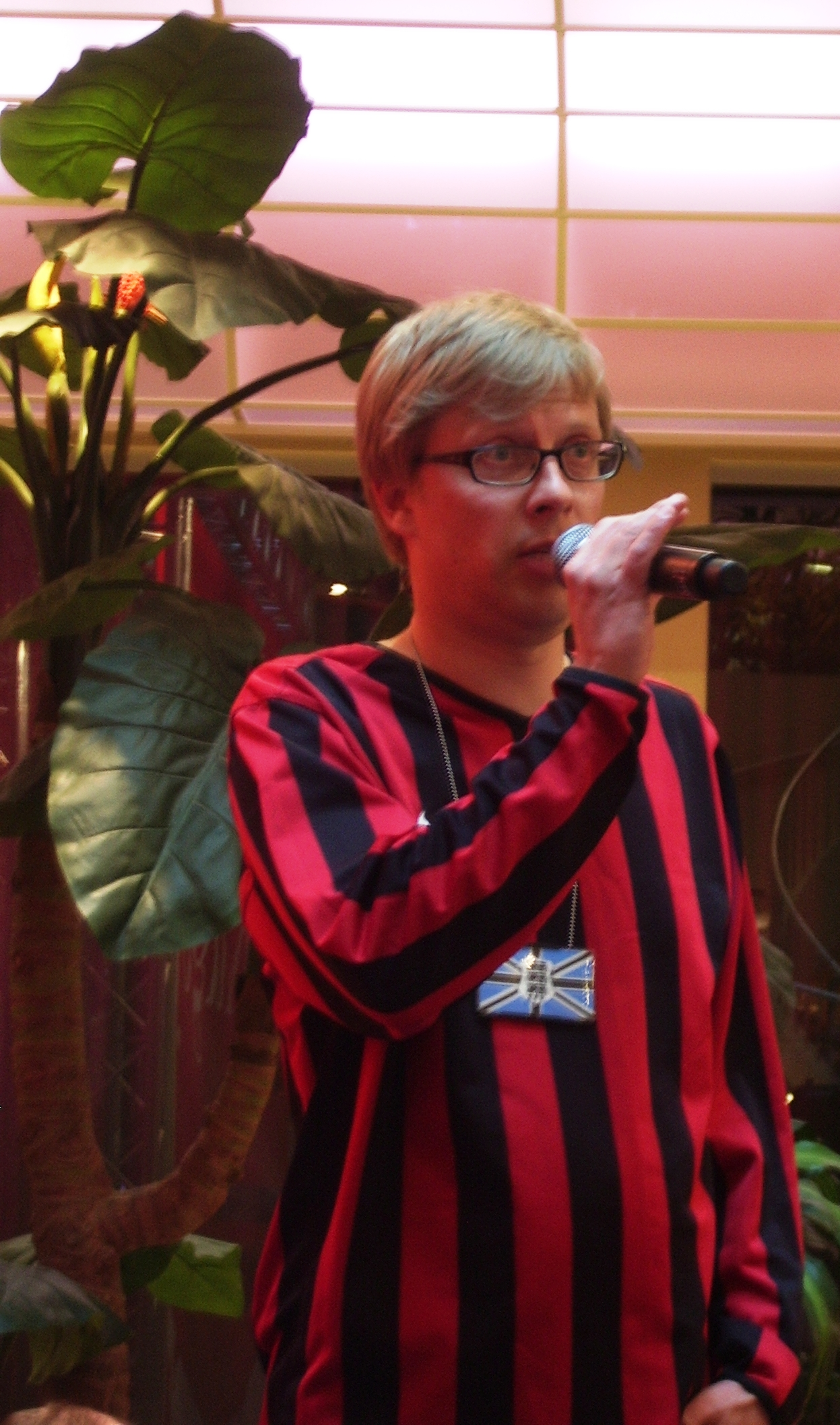 Mika Keränen (born 1973 in Helsinki) is Estonian writer.